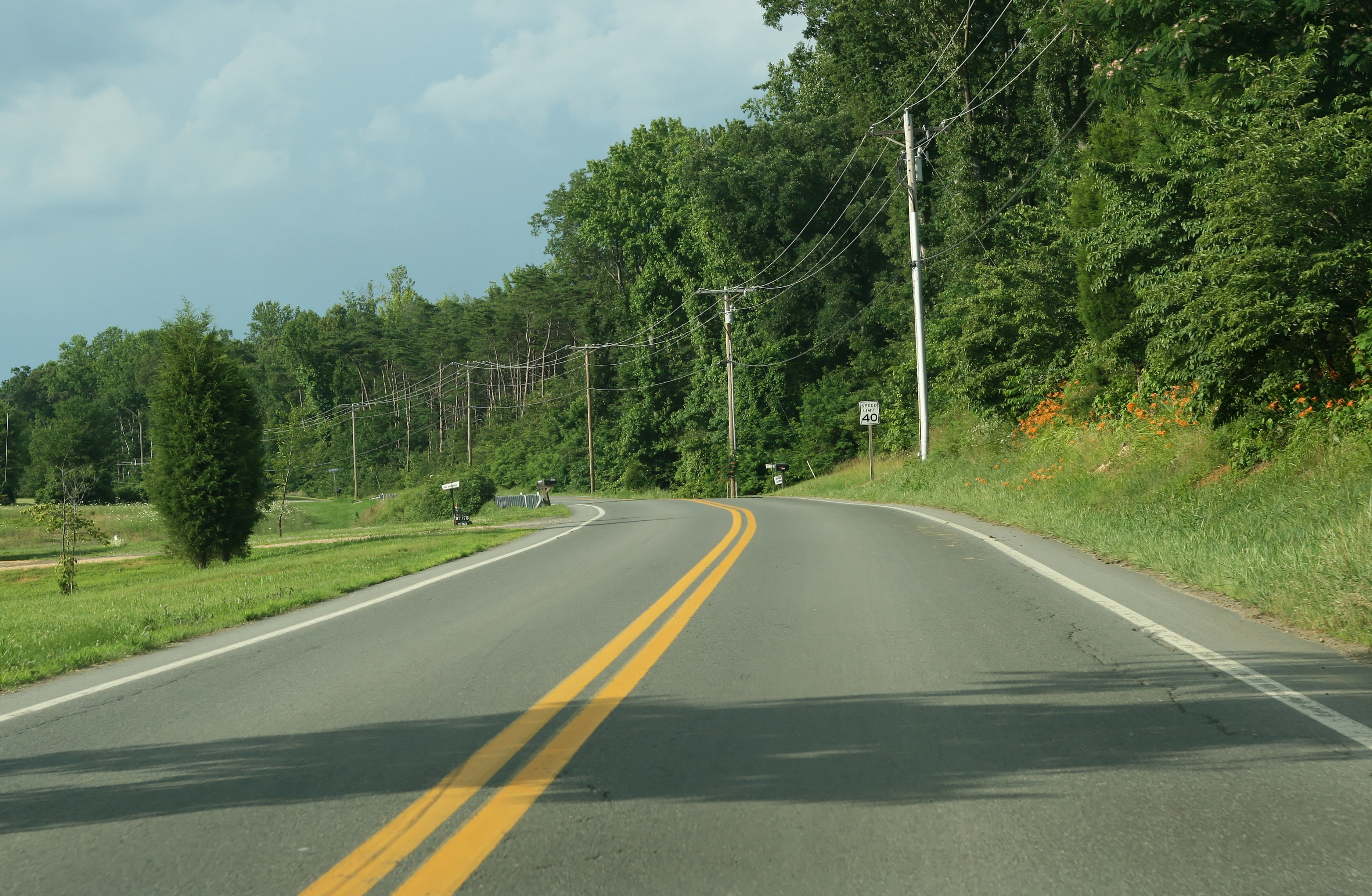 Shot of Maryland State Route 236 (Thompsons Corner Road), heading northbound in St. Mary's County in Southern Maryland.